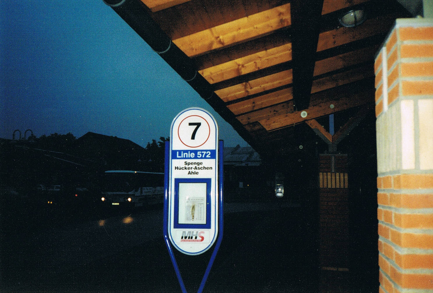 Bus stop at Bünde Station (Germany)